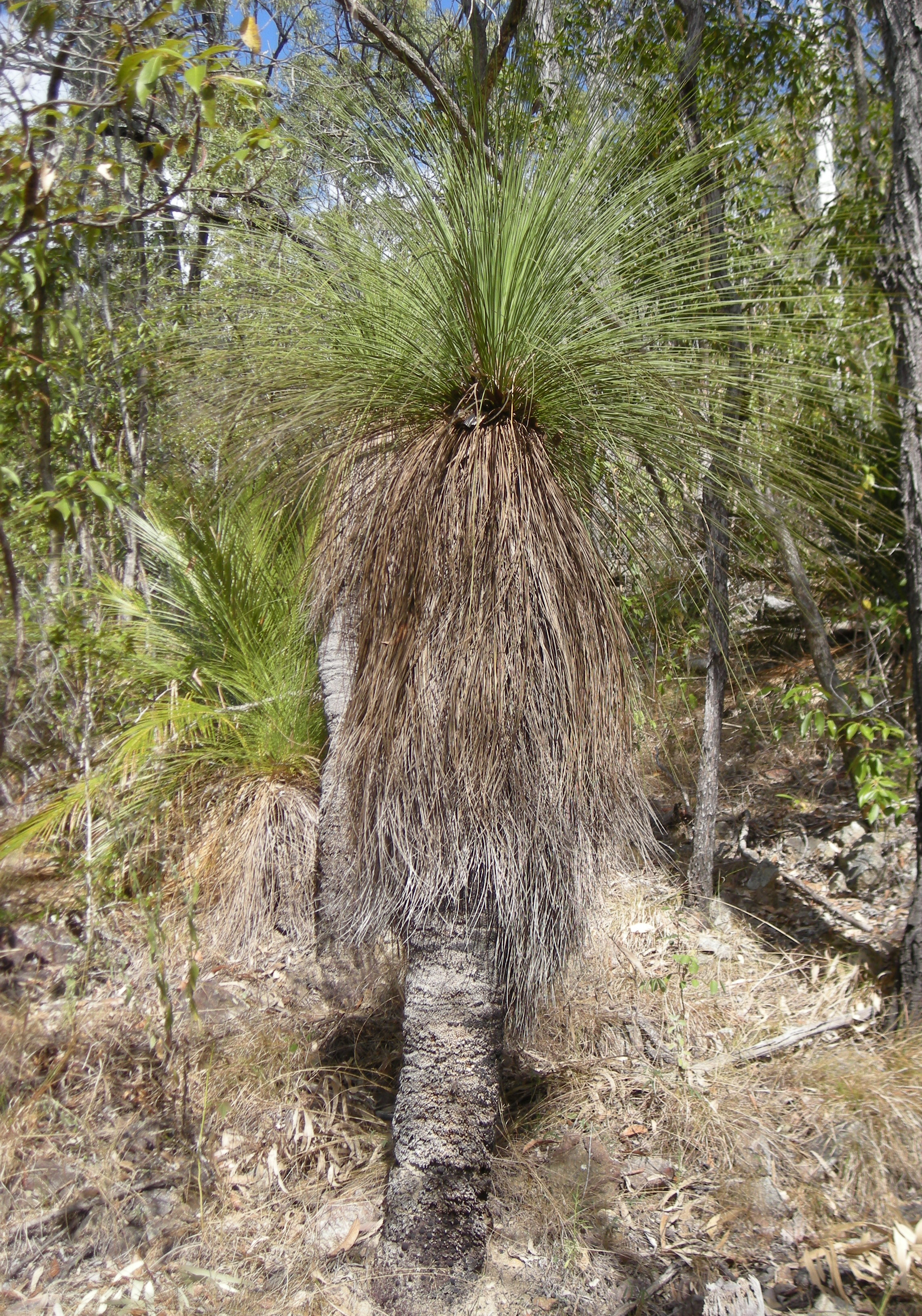 Xanthorrhoea latifolia subsp. latifolia, Mount Archer National Park, Rockhampton